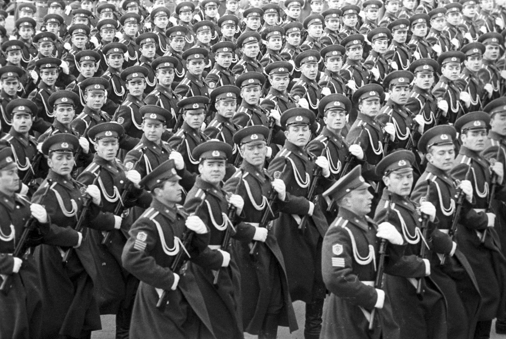 “Cadets of the KGB Moscow Higher Frontier Guards Command Academy”. Cadets of the KGB Moscow Higher Frontier Guards Command Academy at the parade to mark the 55th anniversary of the Great October Socialist Revolution on the Red Square in Moscow.